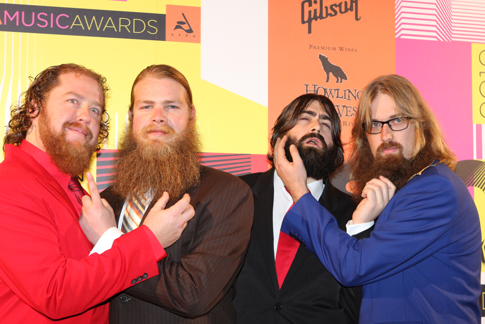 The Beards (Australian band) at the APRA Music Awards of 2012, held at the Sydney Convention and Exhibition Centre on 28 May 2012.